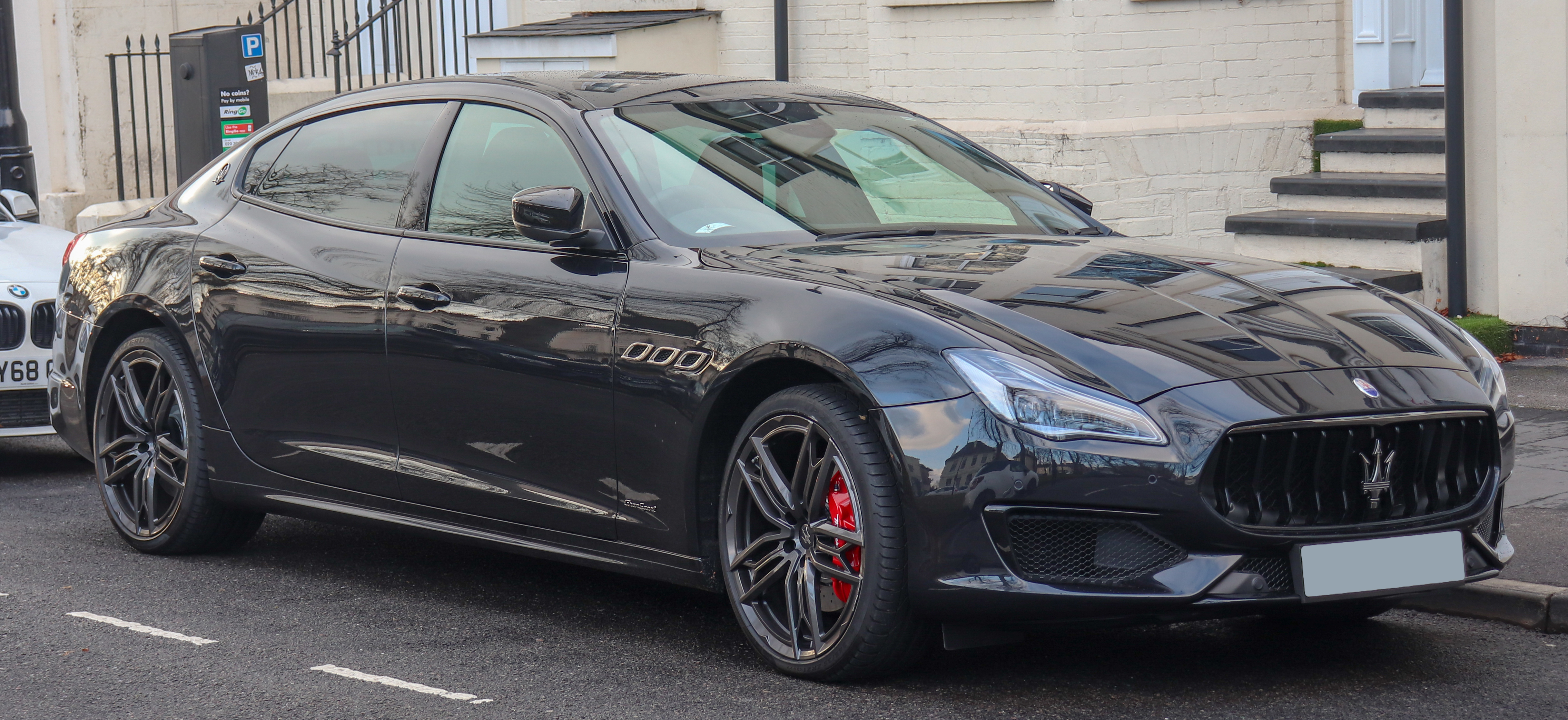 2018 Maserati Quattroporte V6 Automatic 3.0 Front Taken in Leamington Spa